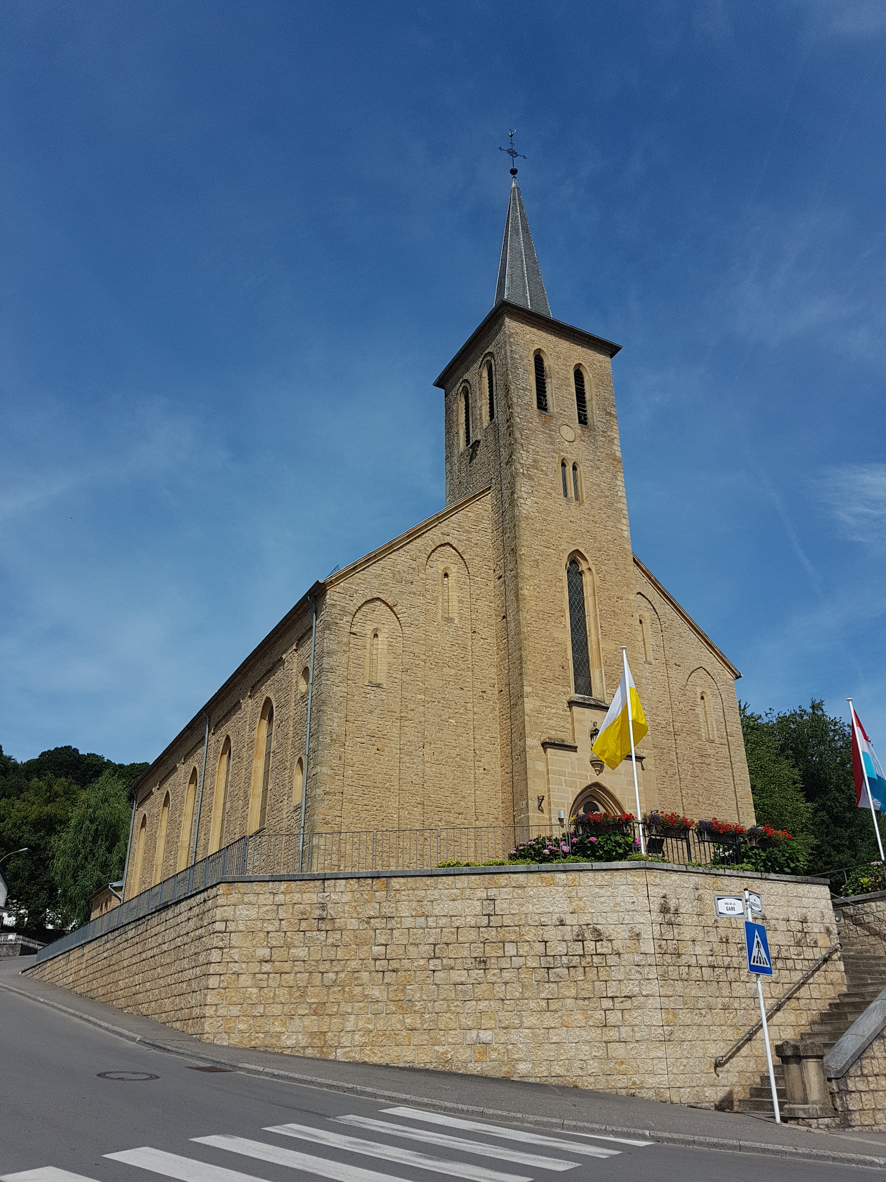 Church Saint-Jean-Baptiste in the village of Hostert (Luxembourgish: "Hueschtert") in the town of Niederaven (Luxembourgish: "Nidderaanwen") in the Grand Duchy of Luxembourg.